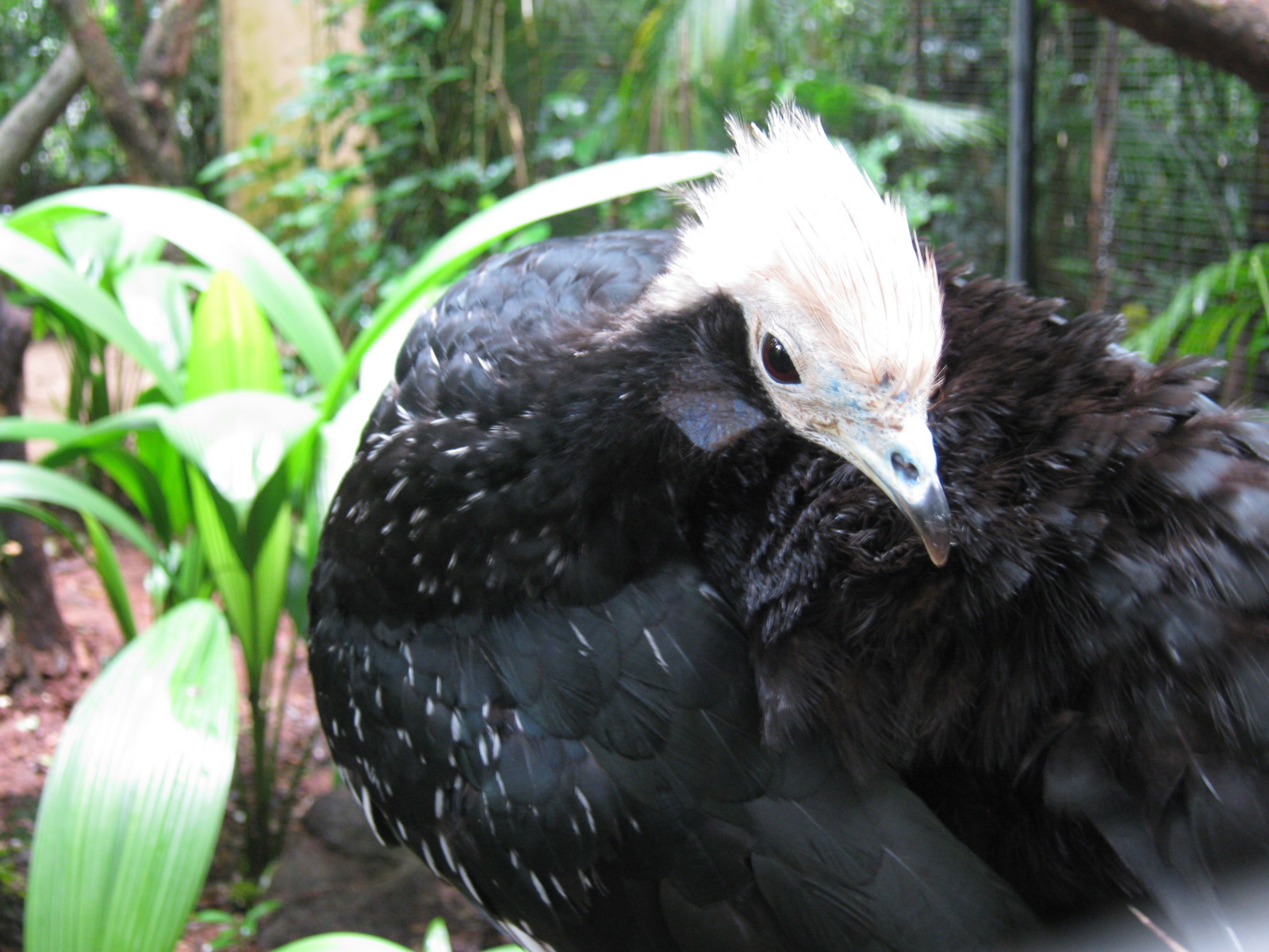 A Blue-throated Piping-guan at Parque das Aves, Foz do Iguaçu, Brazil.